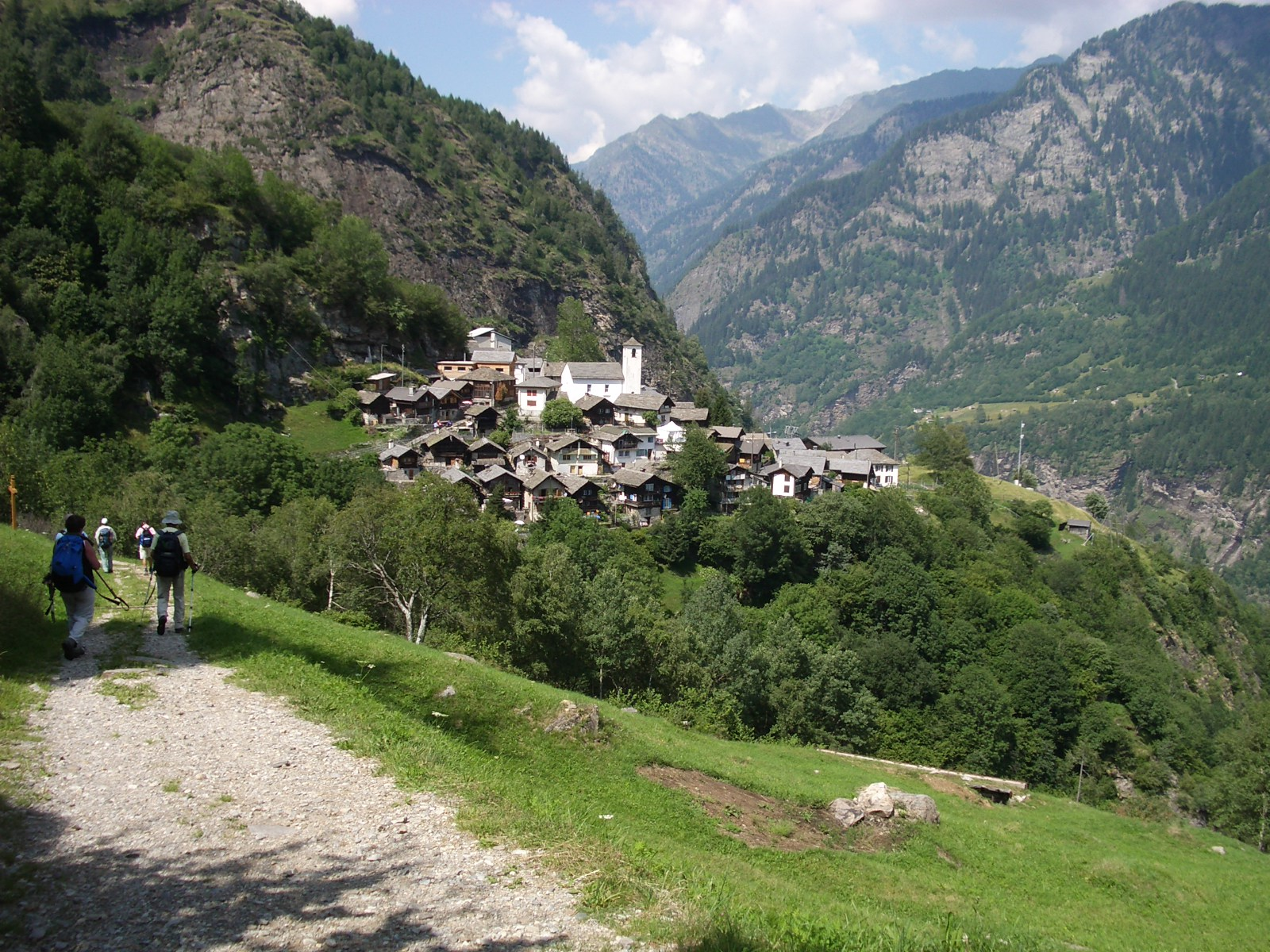 Landarenca GR, Switzerland self-made, July 2006